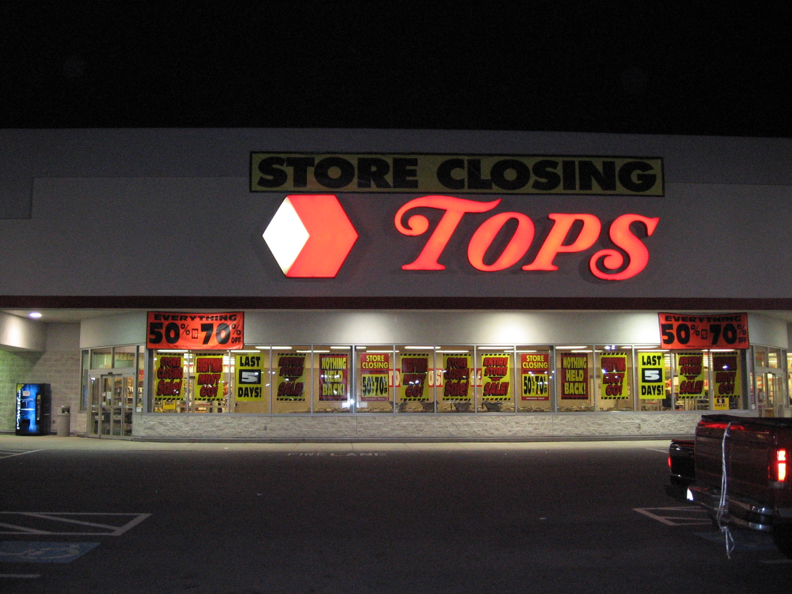 A Tops supermarket in Tallmadge, Ohio after the company announced it would close it and other stores in the Northeast Ohio region. Acme store #11 moved into the former Tops location approximately six months after Tops closed from across the street.